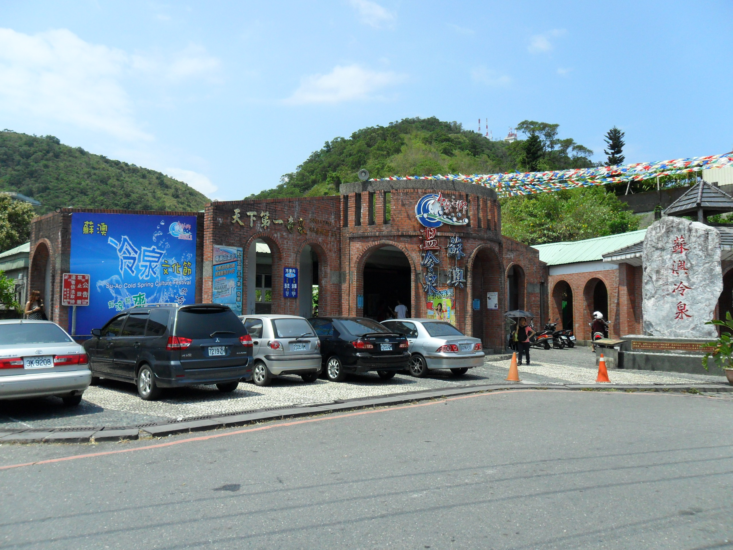 Entrance into the main Su-ao Cold Spring areal. Inside are pools filled with the cold spring water and a tap for drinking.